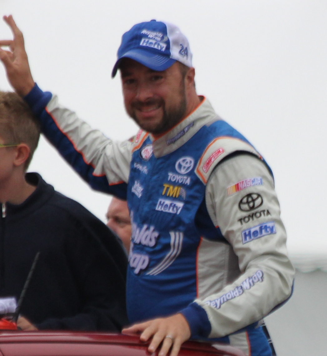 NASCAR driver Eric McClure waves to the crowd during drivers introduction at the Xfinity Series race at Road America.